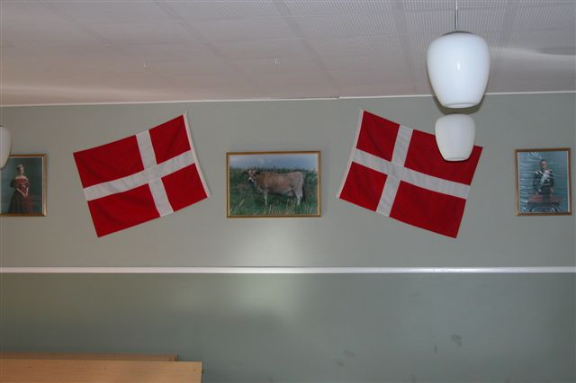 Royal cow, Birkholm